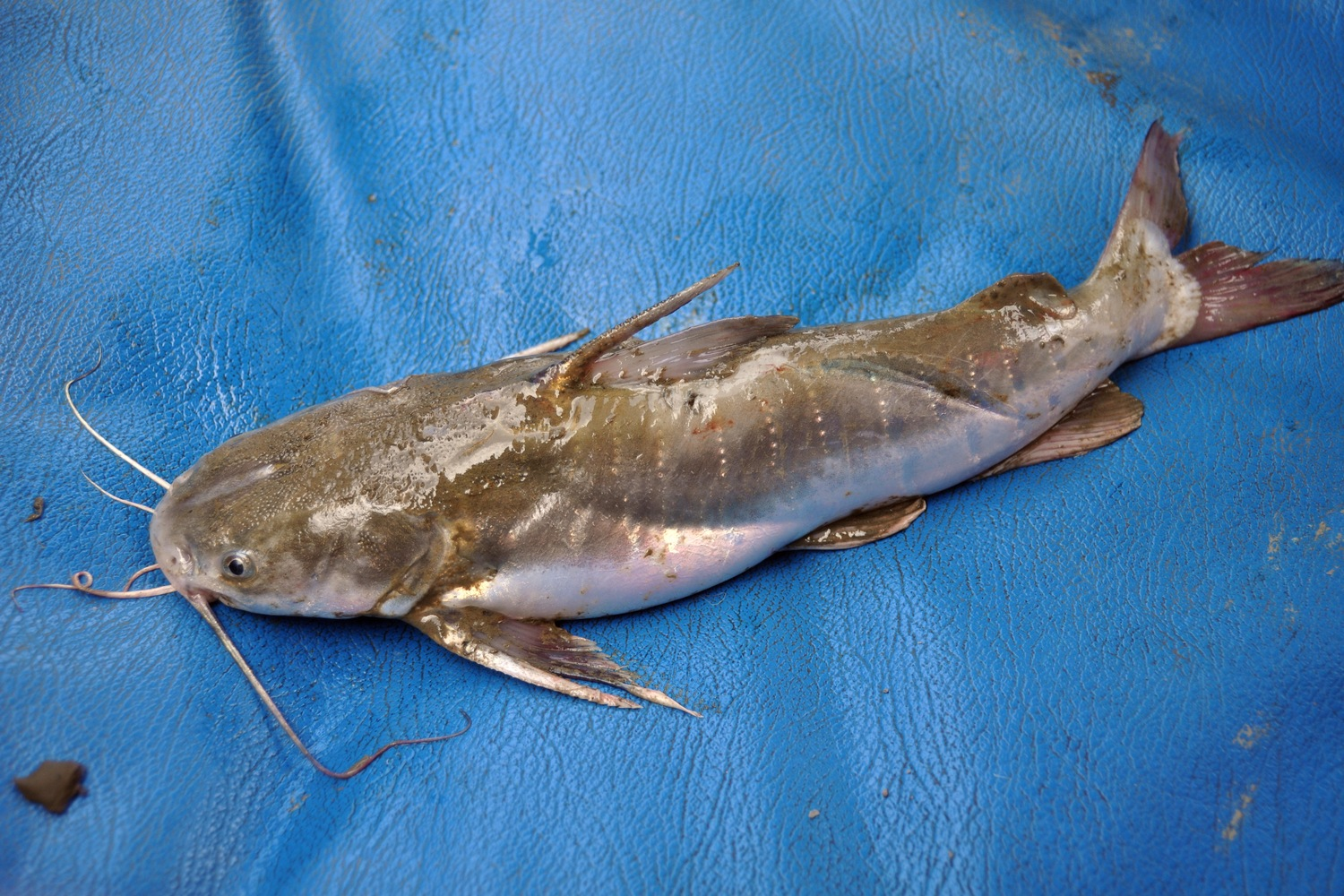 Hexanematichthys sagor, from the estuarine of Banyuasin River, South Sumatra, Indonesia.